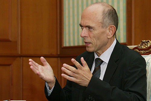 THE KREMLIN, MOSCOW. Slovenian Prime Minister Janez Drnovšek in 2002.